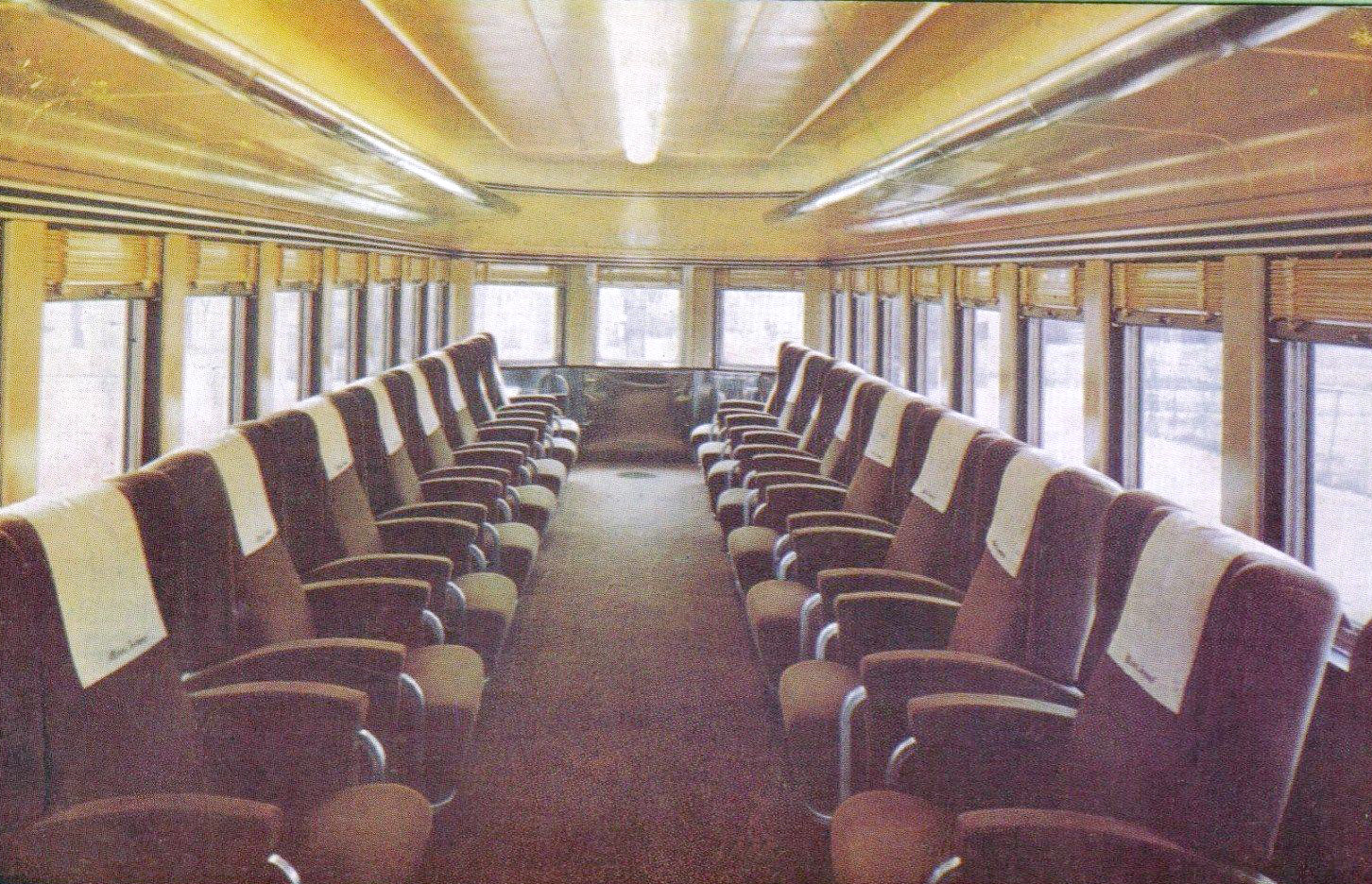 Interior of one of the Illinois Terminal Railroad's Streamliner passenger cars. This is one of their reserved seat coach cars.